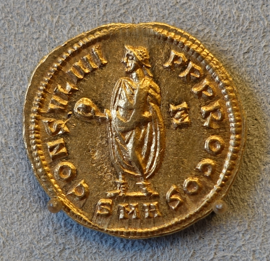 Exhibit in the Bode-Museum, Berlin, Germany. This work is in the public domain because the artist died more than 100 years ago.